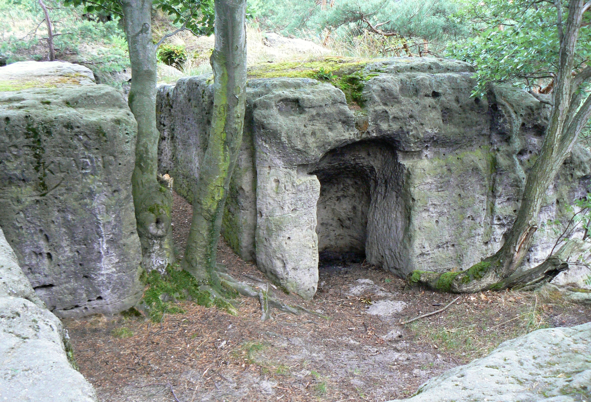 Ruins of castle named Pustý zámek near Zakšín in Česká Lípa District